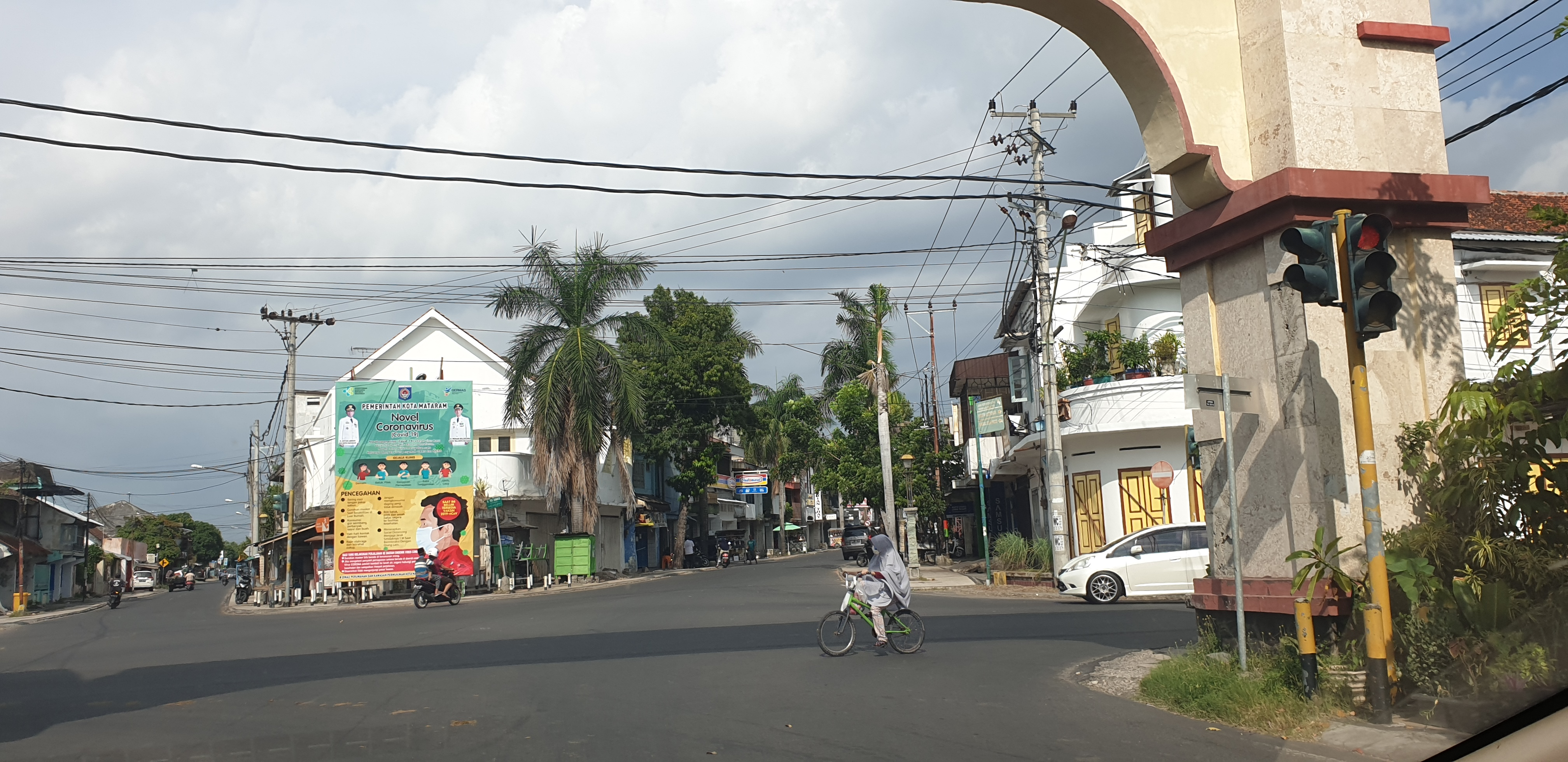 Kota Tua Ampenan